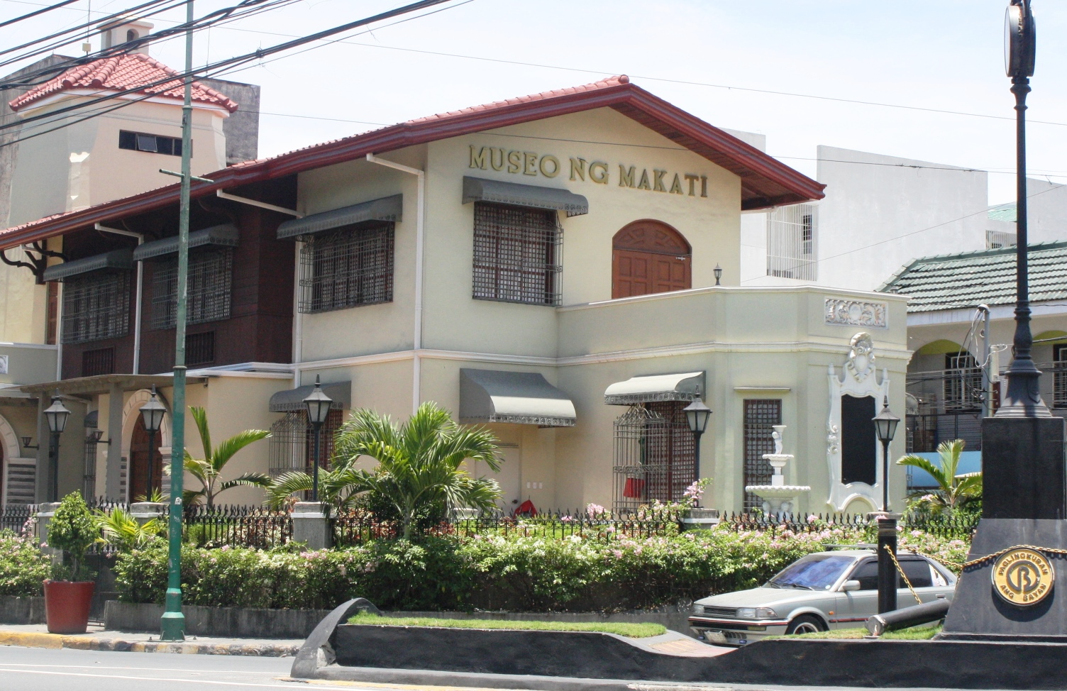 A closer look of the facade.